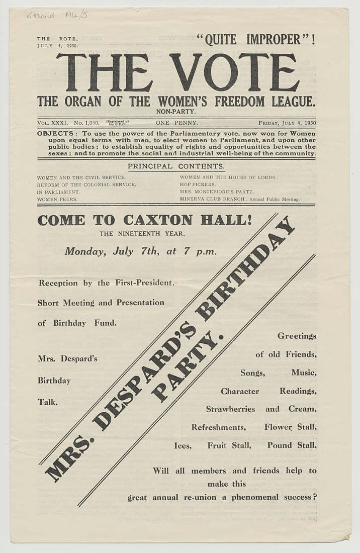 Image of "The Vote"